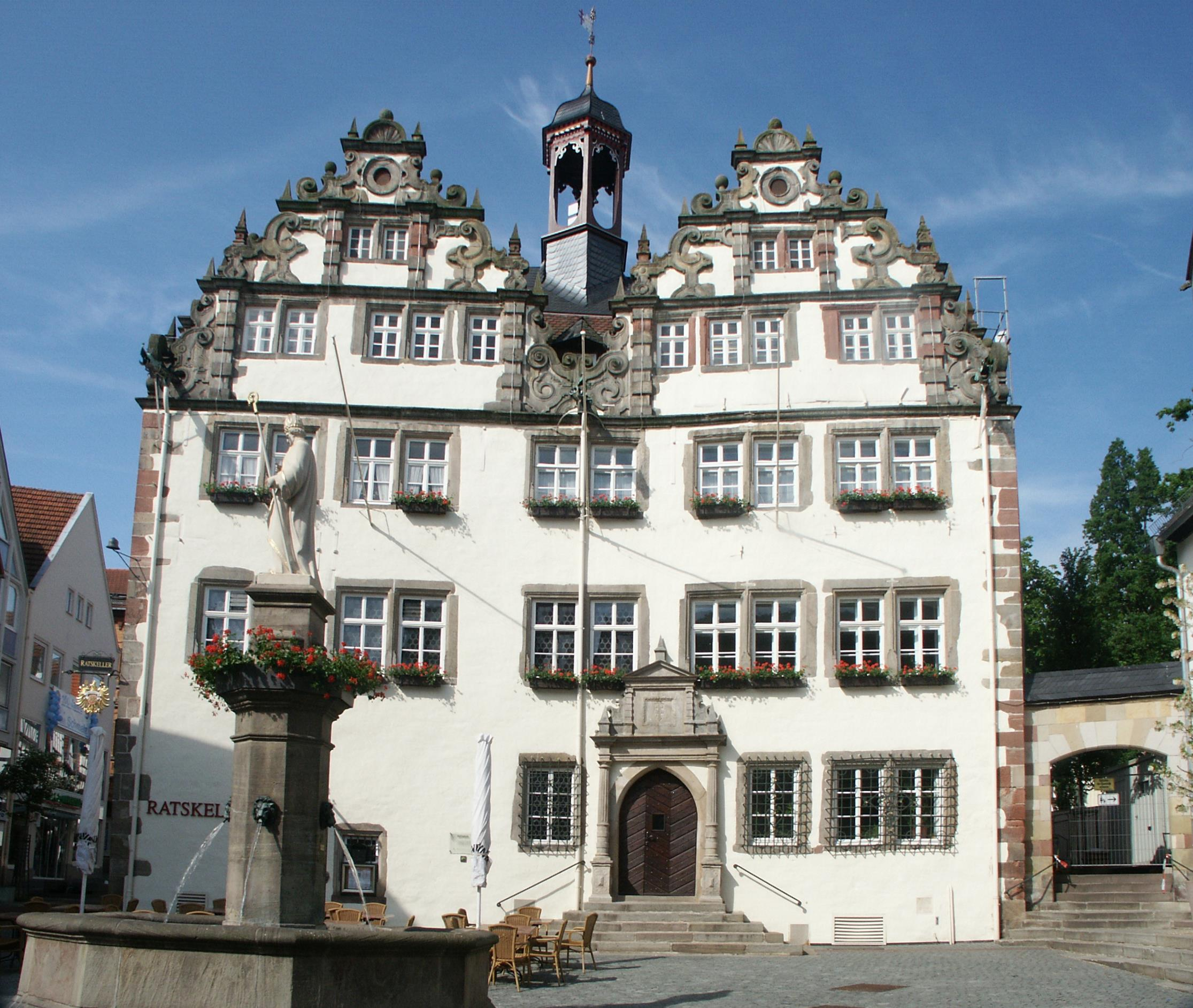 Town hall of Bad Hersfeld